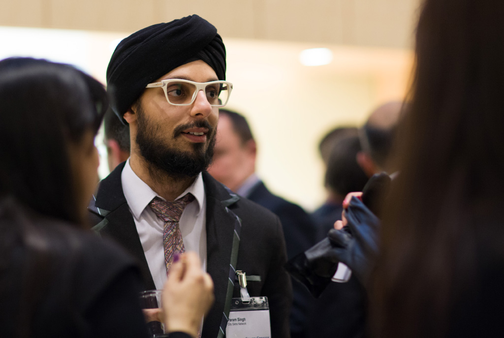 Param Singh who appeared on Take Me Out Series 5 and 10 at a networking event in London